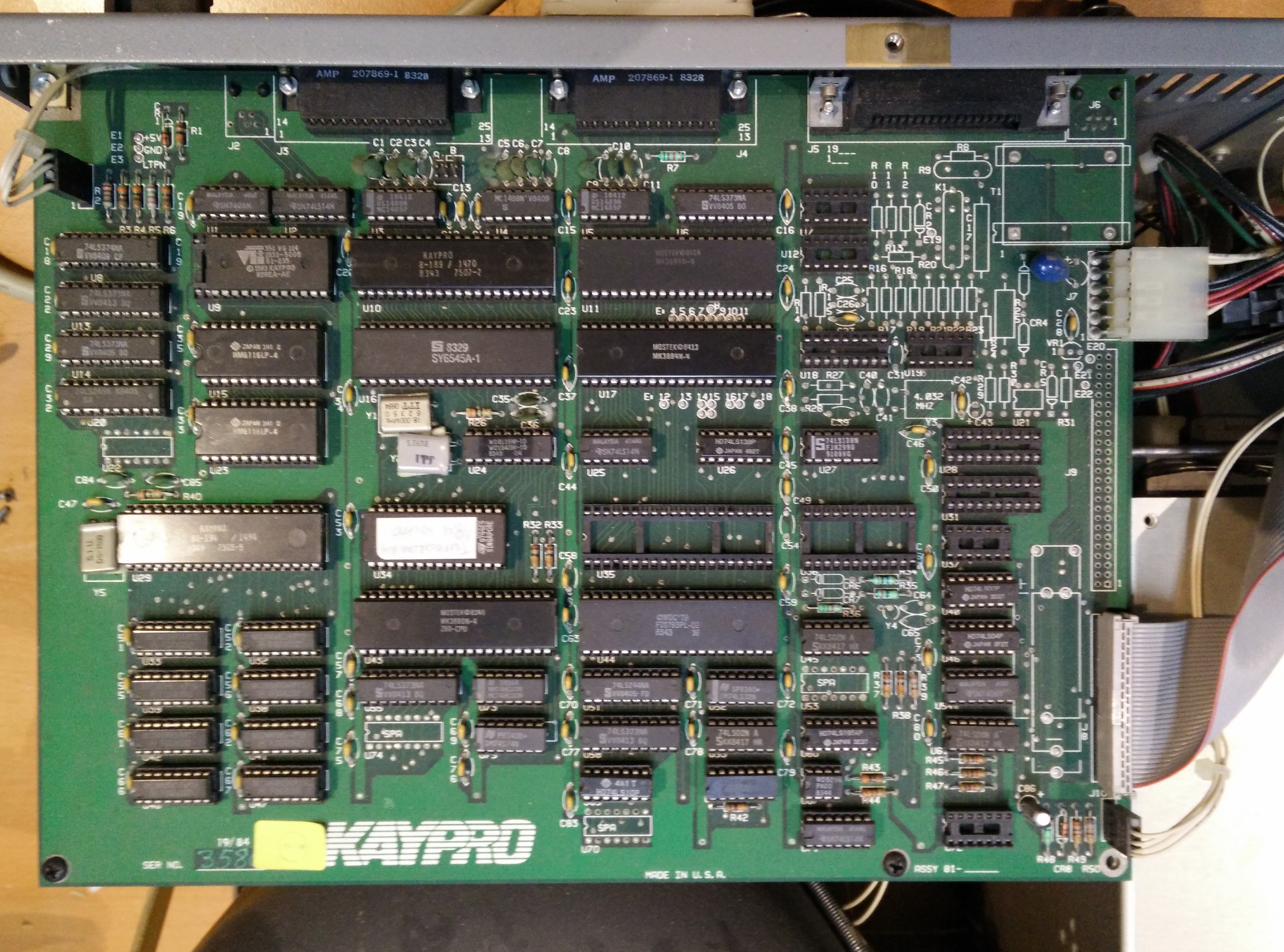 A Kaypro II motheroboard.